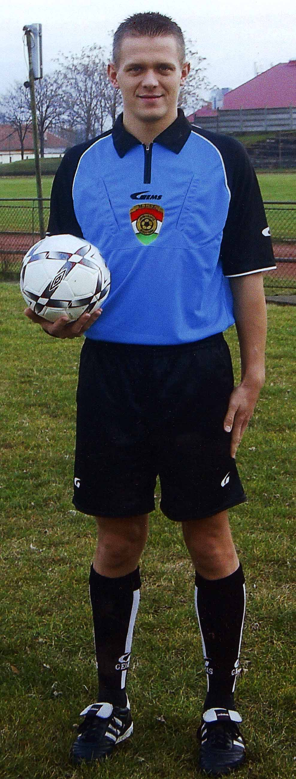 Ádám Farkas, born 1982, international football (soccer) referee